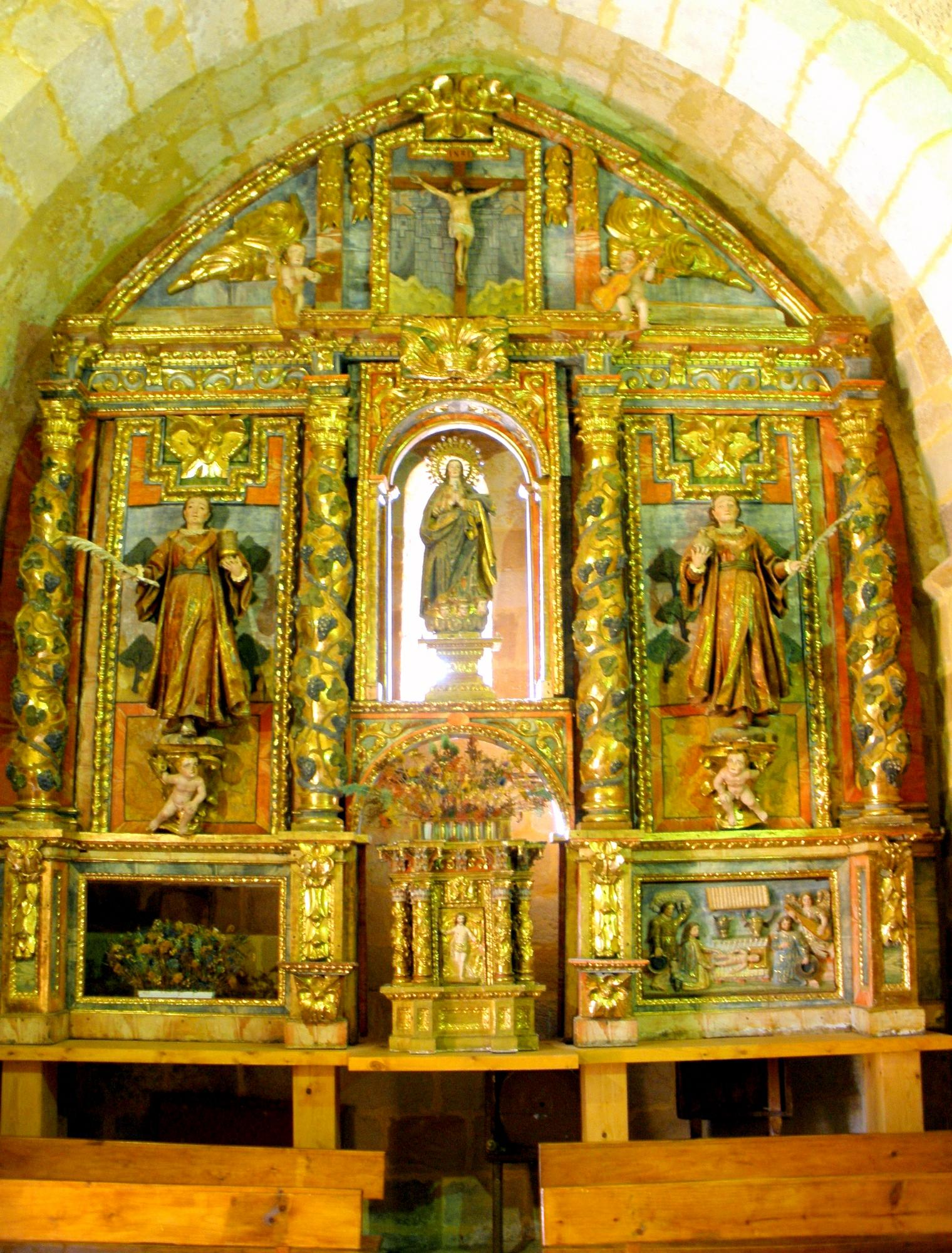 Retablo mayor de la iglesia parroquial de San Cosme y San Damián, en Basconcillos del Tozo (Burgos, Castilla y León, España)